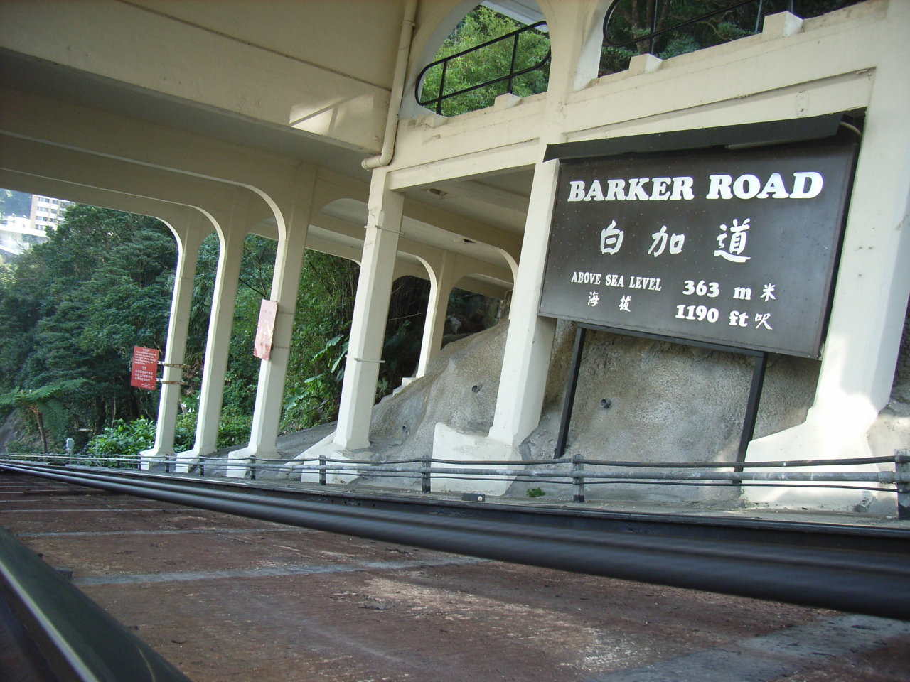 白加道 山頂纜車分站 (Parker Road Peak Tram Station), Victoria Peak, Hong Kong Photographer and author is ParkerStarS.